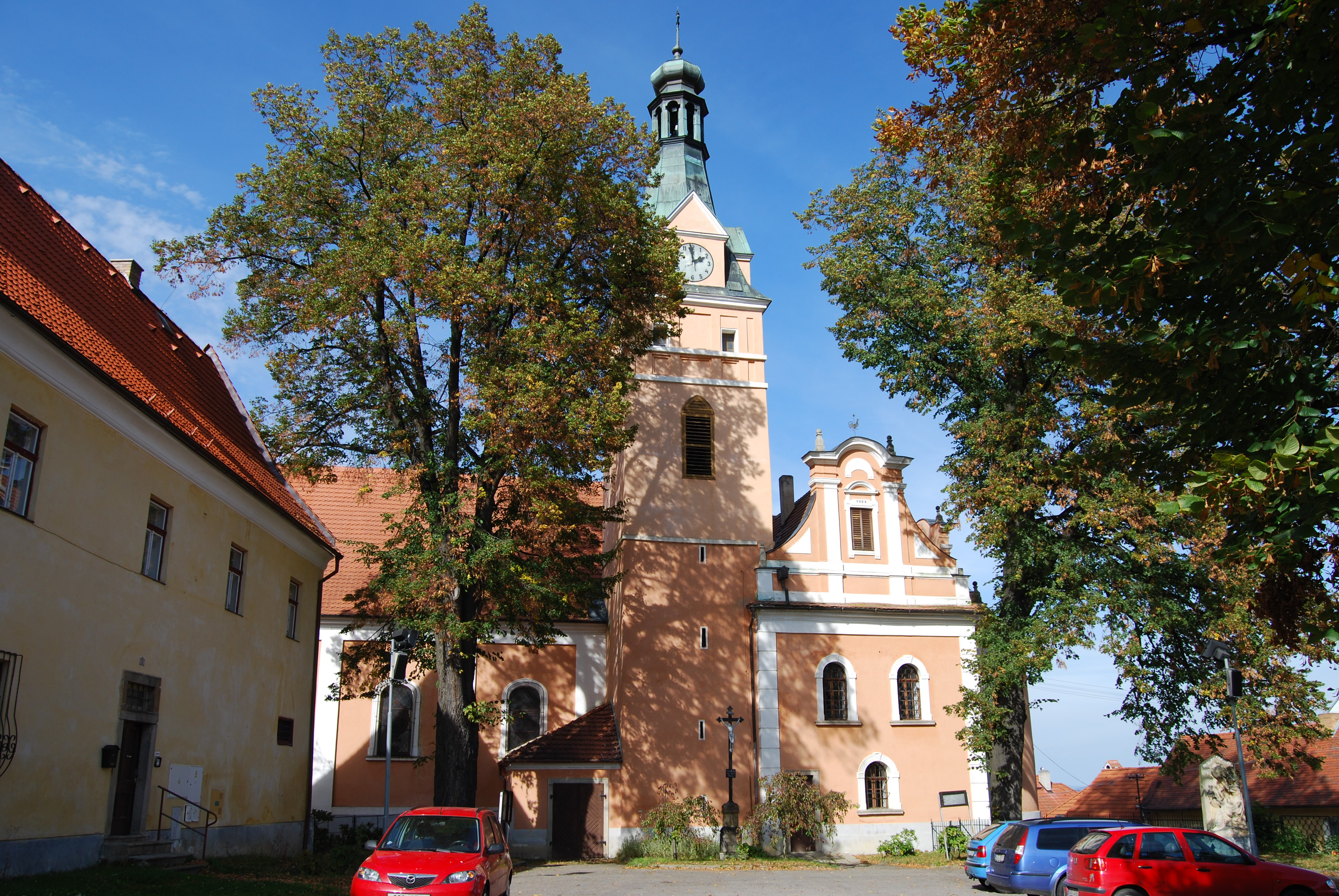 Lhenice town in Prachatice District, Czech Republic. Church of Saint James